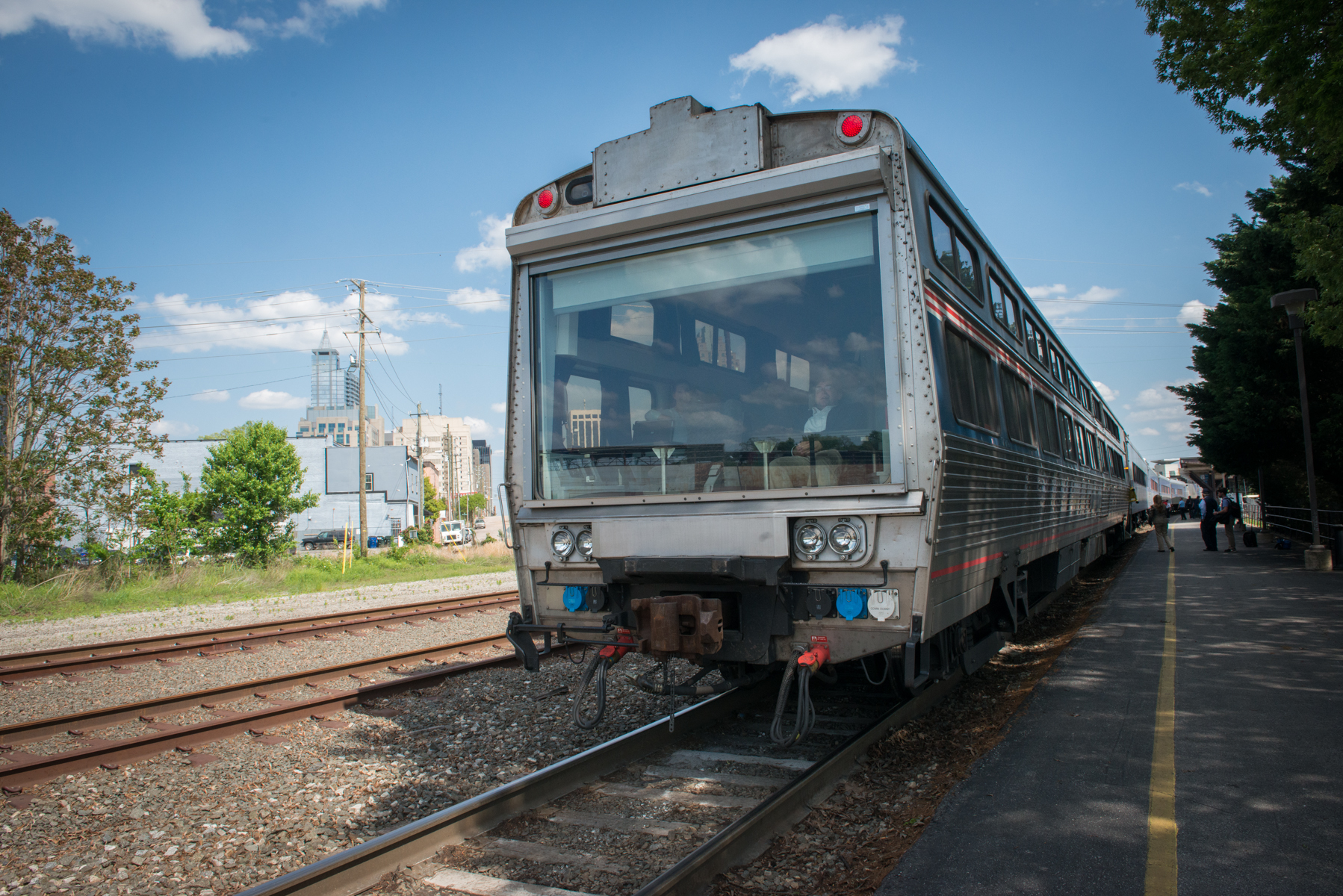 2015.04.21AmericaView_ (353 of 368)